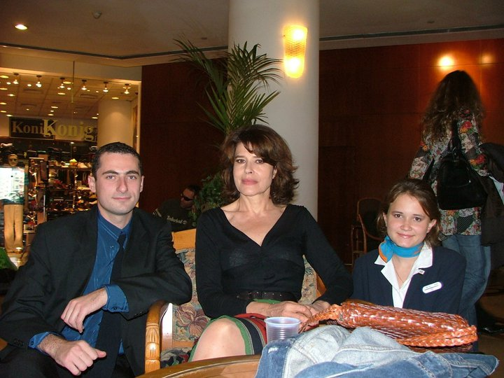 Made by me in movie making of Hello Goodbye in Israel. In the picture: Fanny Ardant, Z.V.S & N.T.S